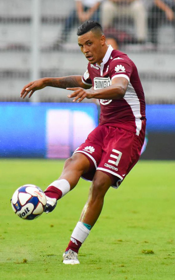 Julio Cascante playing for Deportivo Saprissa on August 28, 2016.